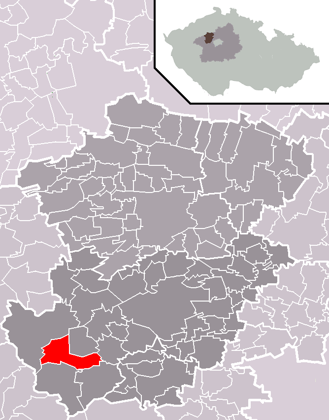 Location of Lhota municipality within Kladno District and administrative area of Kladno as a Municipality with Extended Competence.